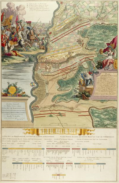 Colour lithograph. Map of the Battle of Blenheim in the War of the Spanish Succession, by Jan van Vianen. Published by Anna Beeck in 1705.